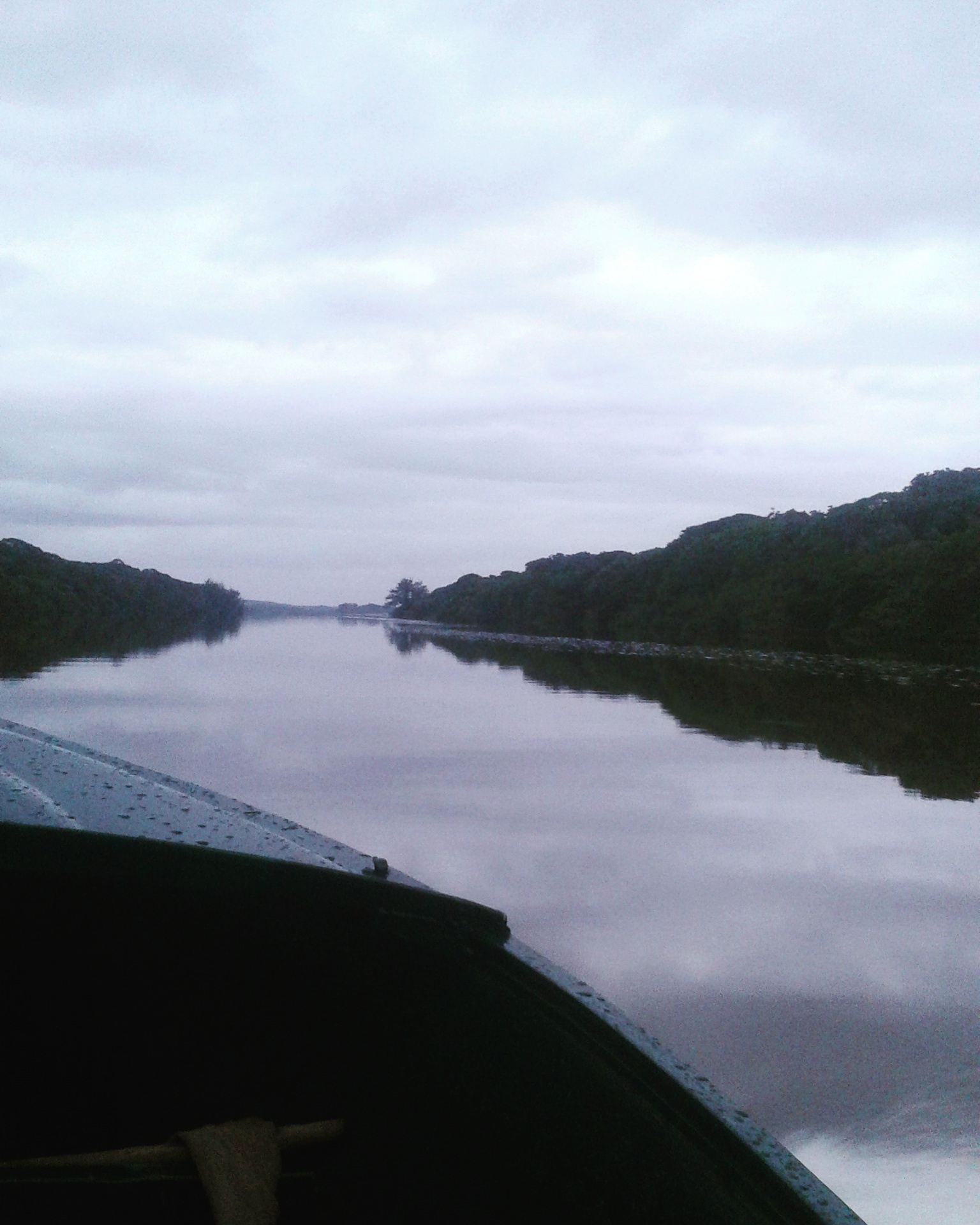 Boat ride at Amatigulu Nature Reserve, South Africa. This is an image with the theme "Africa on the Move or Transport" from: South Africa